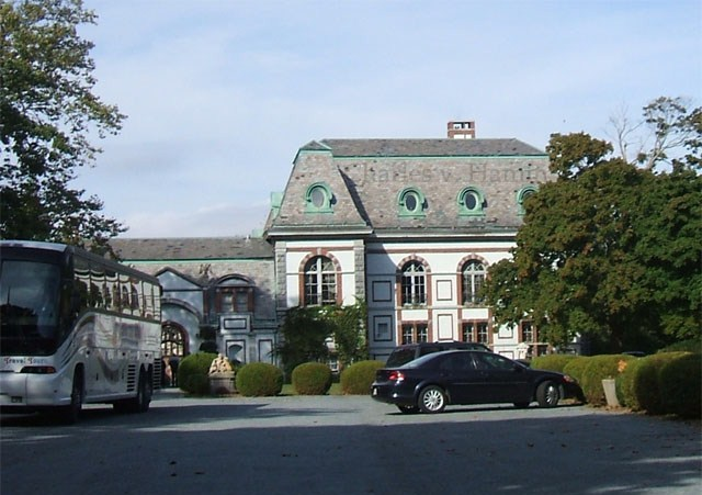 The eastern facade of Belcourt Castle on Bellevue Avenue in Newport, Rhode Island. Photographed on the morning of September 30, 2007. Free to share with attribution to Charles v. Hamm (e.g., photo by Charles v. Hamm).